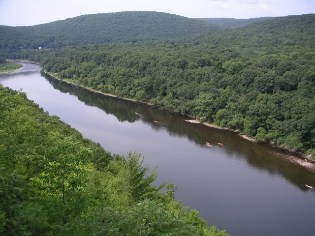 View of the Delaware River with canoeists, from the scenic Hawk's Nest overlook on New York State Route 97